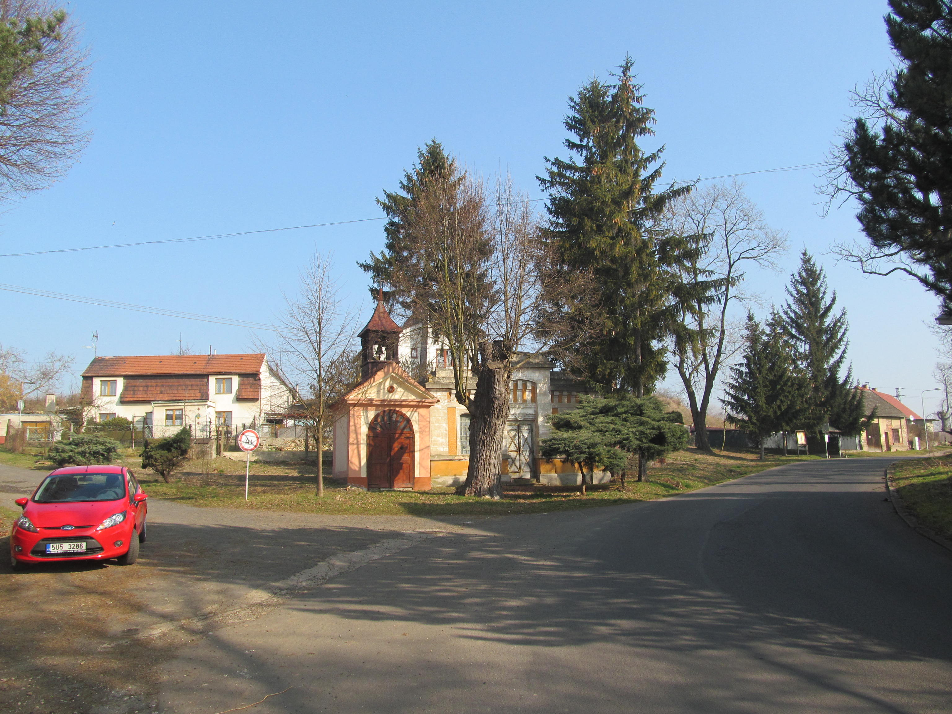 Village square in Rvenice